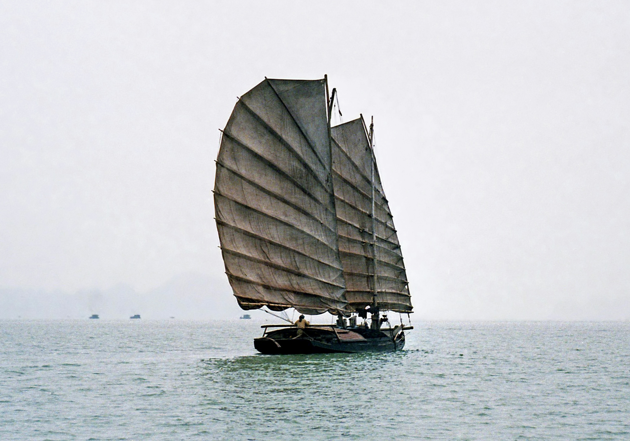 Junk in the Halong Bay, Vietnam